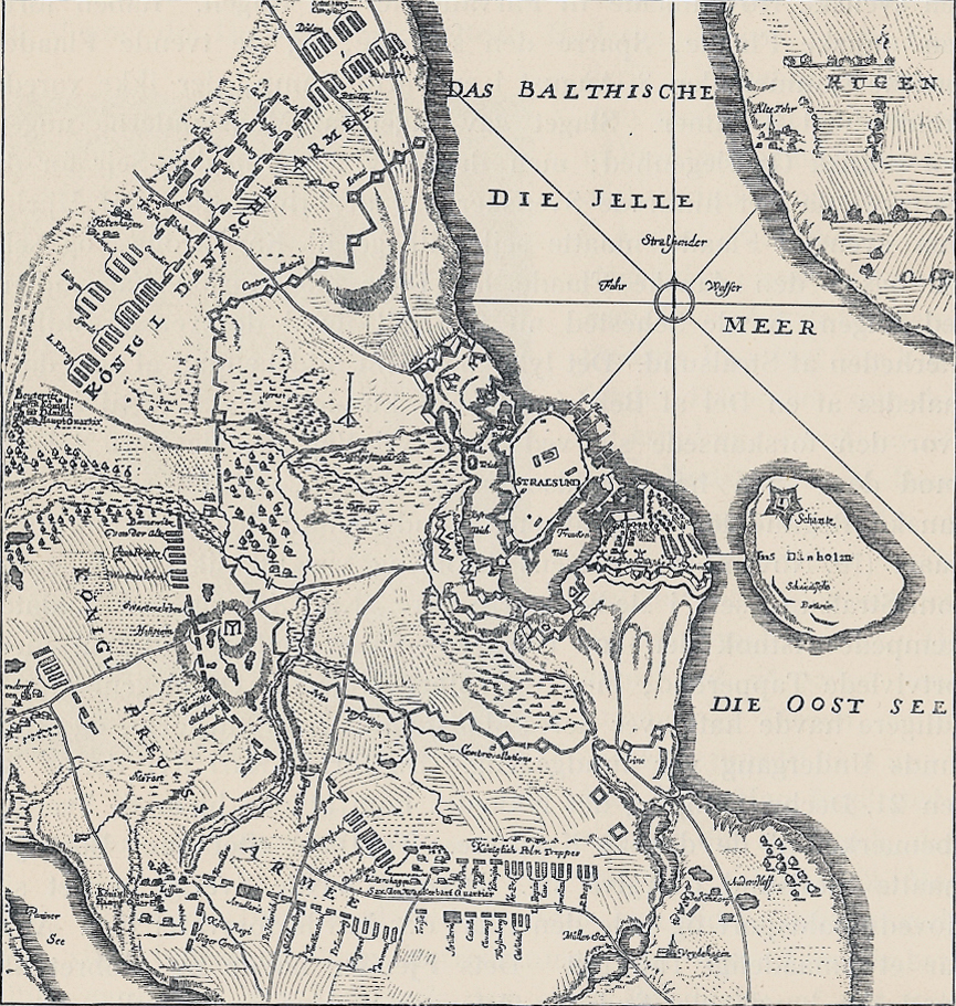 Map of Stralsund and Rügen from the time of the Great Northern War (1700-1720).